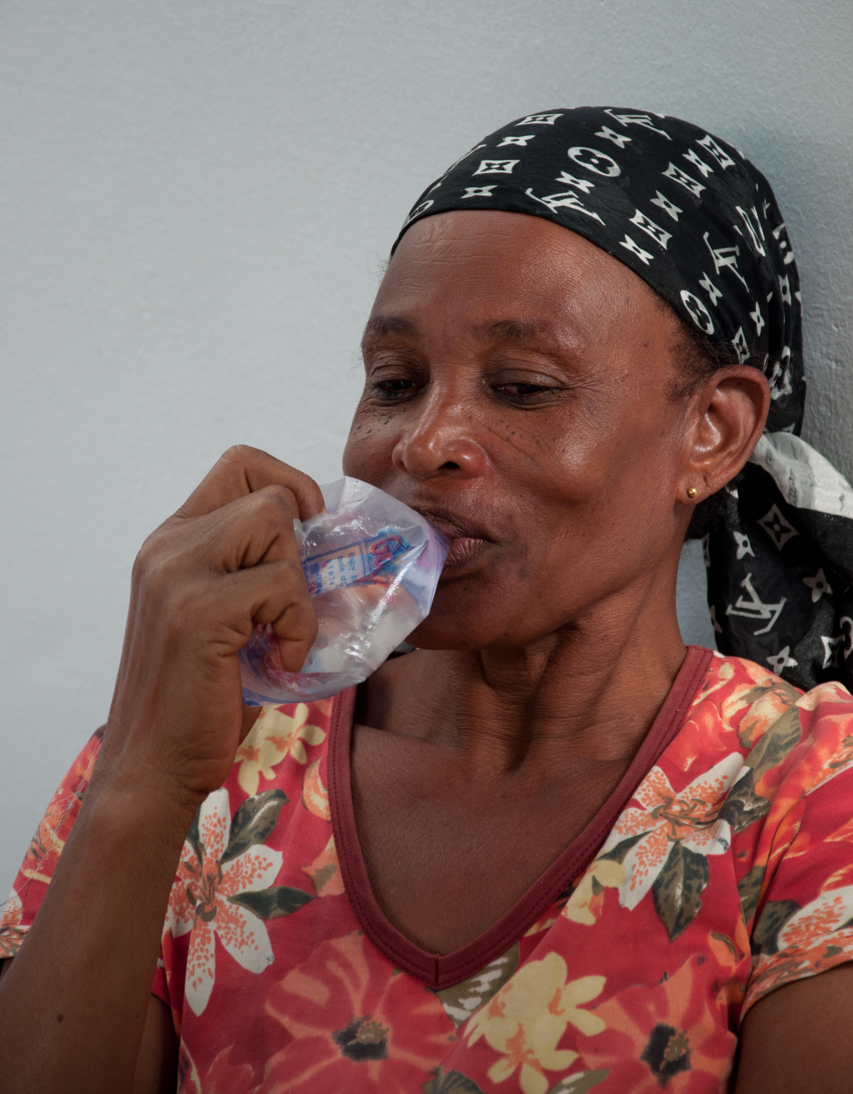 Plastic water sachets are cheap replacements of plastic or glass bottles and tin cans used in Wester Africa. Social enterprise Trashy Bags located in Accra, Ghana uses them as a base material for bags and other accessories.